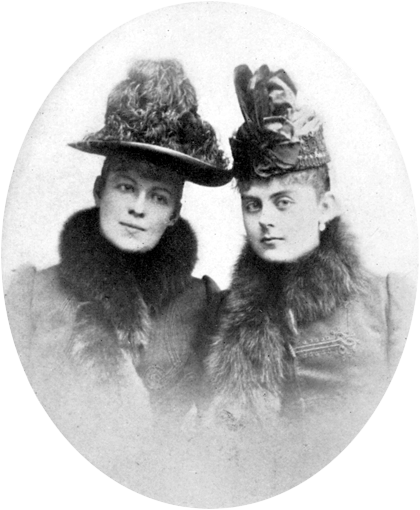 This is the last photograph of Baroness Mary Vetsera (R), and shows her wearing the dress in which she was buried. On the (L) is Countess Marie Larisch, a go-between for Mary and Crown Prince Rudolf of Austria.